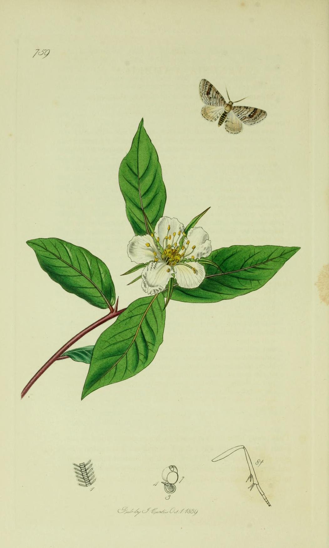 An illustration from British Entomology by John Curtis. Lepidoptera: Venusia cambrica Curtis (Welsh Wave).